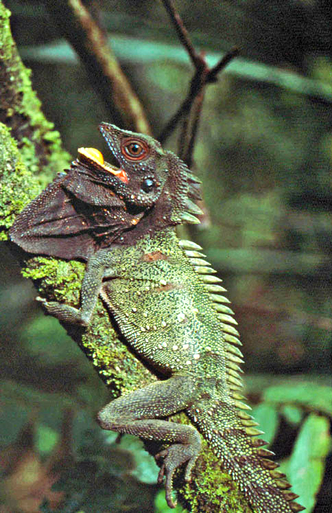 Hypsilurus dilophus, Lakekamu Basin, Papua New Guinea